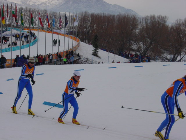 Skiers at the Soldier Hollow venue during the 2002 Winter Olympics in Salt Lake City.